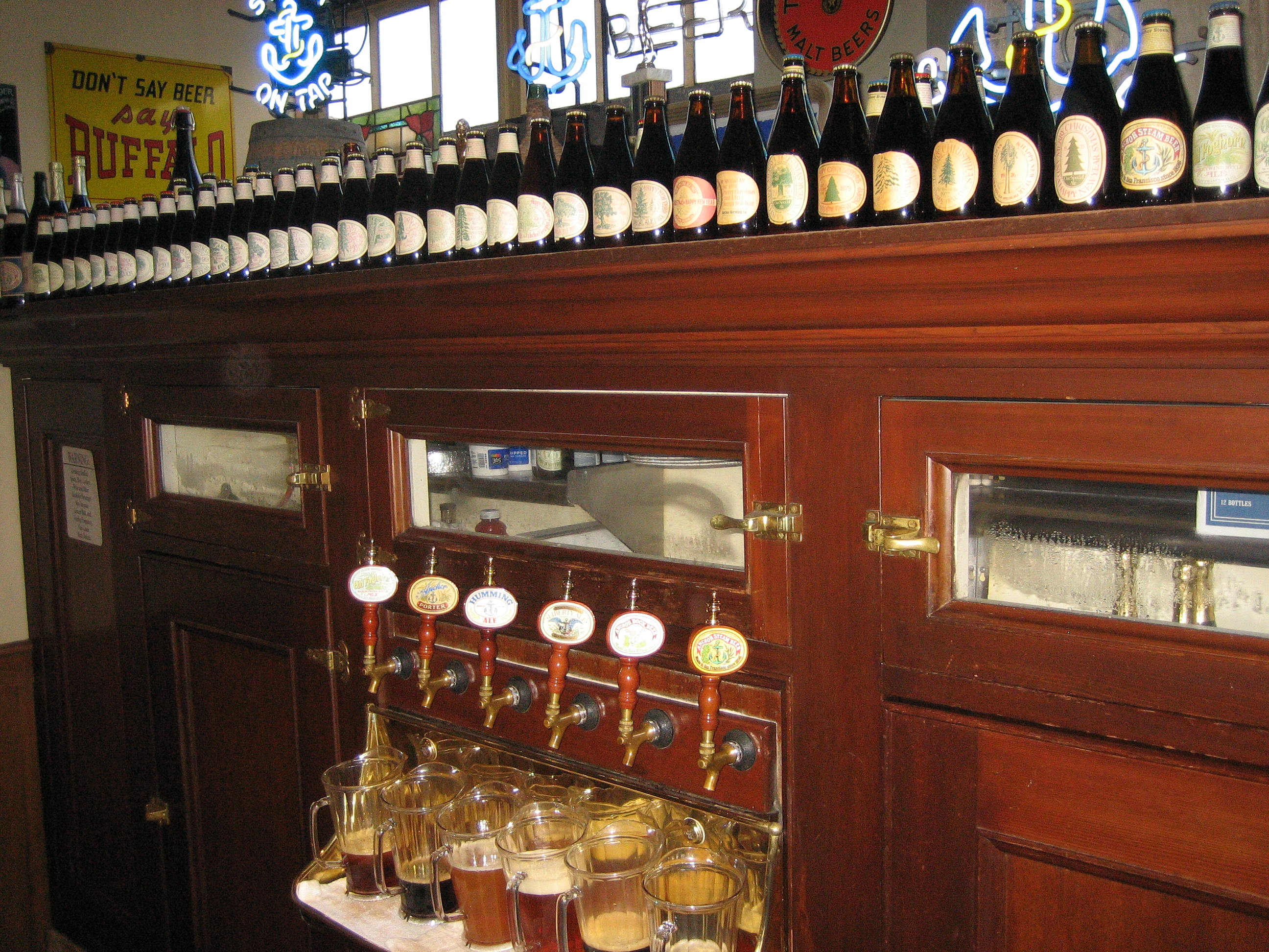 Bottles of beer line the top of the bar at Anchor Brewing, with taps below serving a range of beer styles. The row of bottles includes one from each special holiday issue, "Christmas Ale". Photograph taken during a brewery tour, offered once a week by reservation.